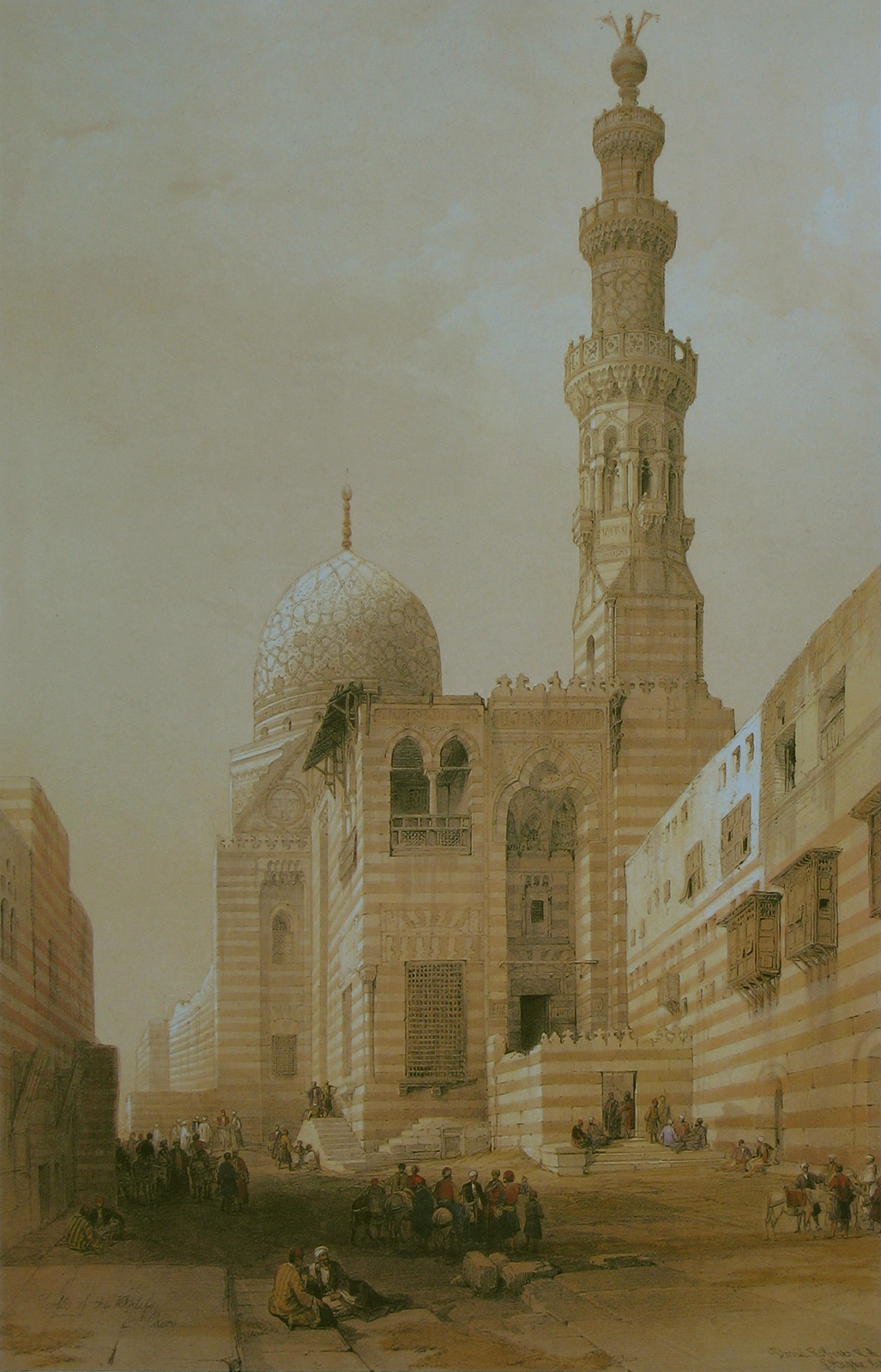 Mosque of the Sultan Kaitbey, Cairo